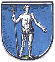 Sępólno Krajeńskie coat of arms used from 18th till mid 20th century